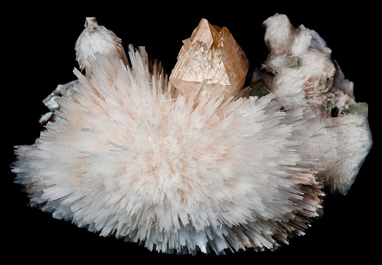 Powellite, Apophyllite-(KF), Scolecite Locality: Nasik District, Maharashtra, India (Locality at ) Size: 12.0 x 8.0 x 4.7 cm. A superb Indian cabinet combination specimen. A huge, diamond-like, 3.1 cm, gemmy, honey-yellow, pseudo-octahedral powellite crystal is the crowning glory atop the tiara-like cluster of snow-white scolecite blades. The scolecite "tiara" is further accented with few, emerald-like, blocky, pastel-green fluorapophyllite crystals across the top of the specimen. The powellite is pristine, complete all-around and has excellent yellowish-white fluorescence. This Photo was Photo of the Day - 19th Nov 2008